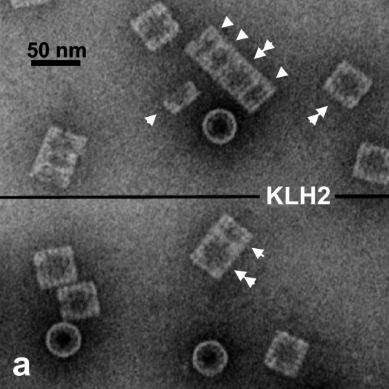 KLH2 (from Megathura crenulata)